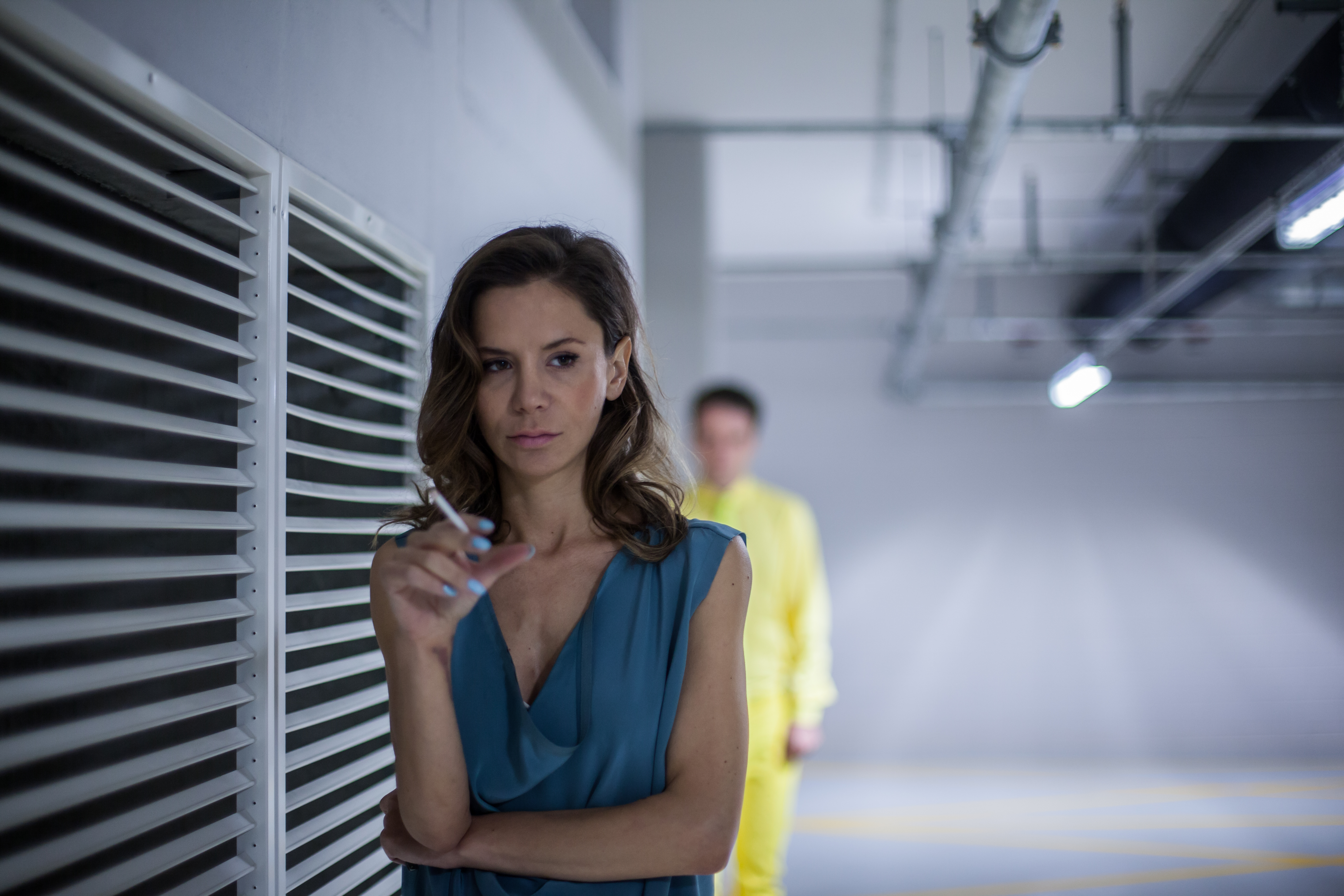 A Natalia Lesz, screenshot from "The Test" movie produced by "Mental Disorder 4" company. [1]